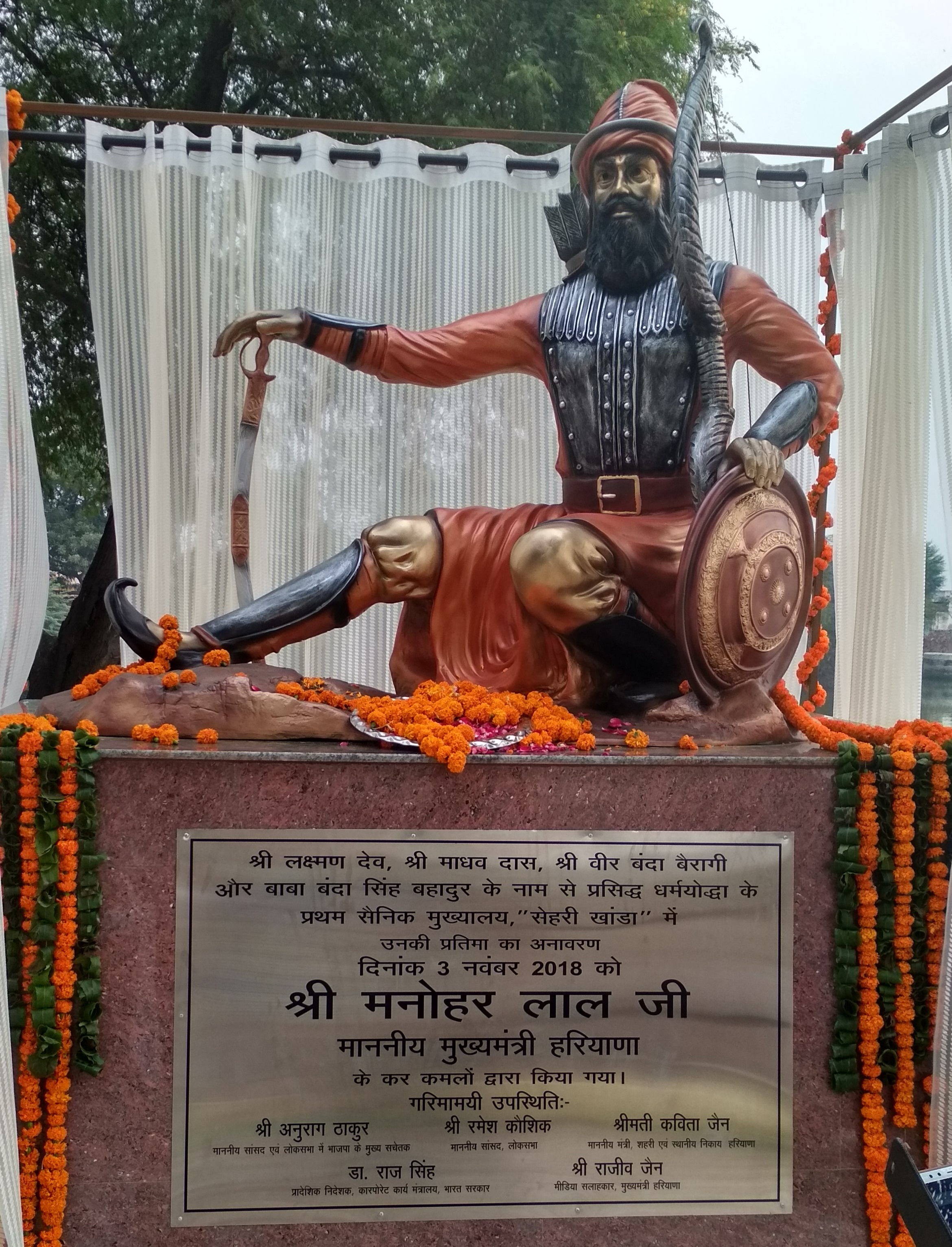 Memorial